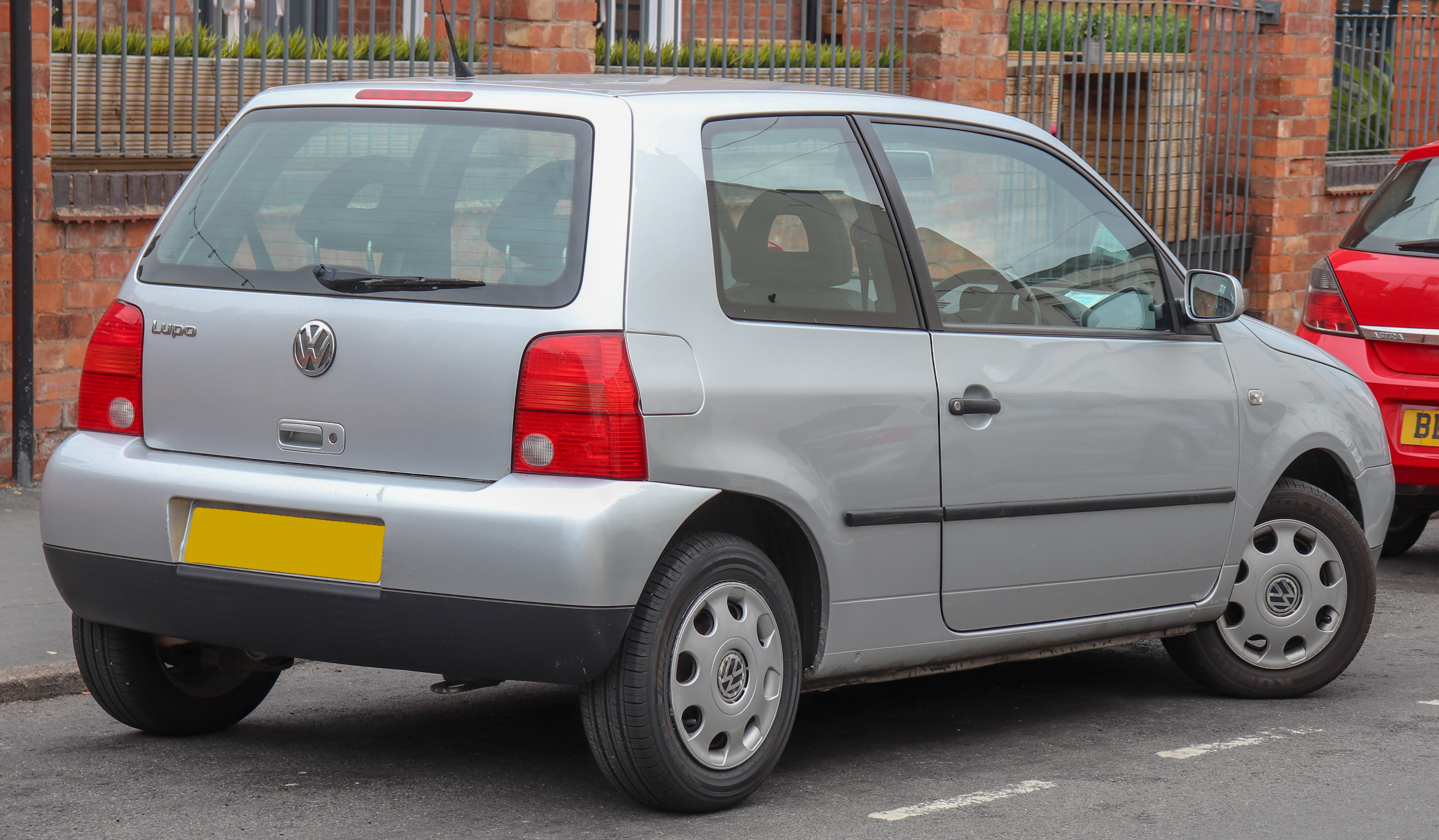 2002 Volkswagen Lupo E 1.0 Rear Taken in Leamington Spa